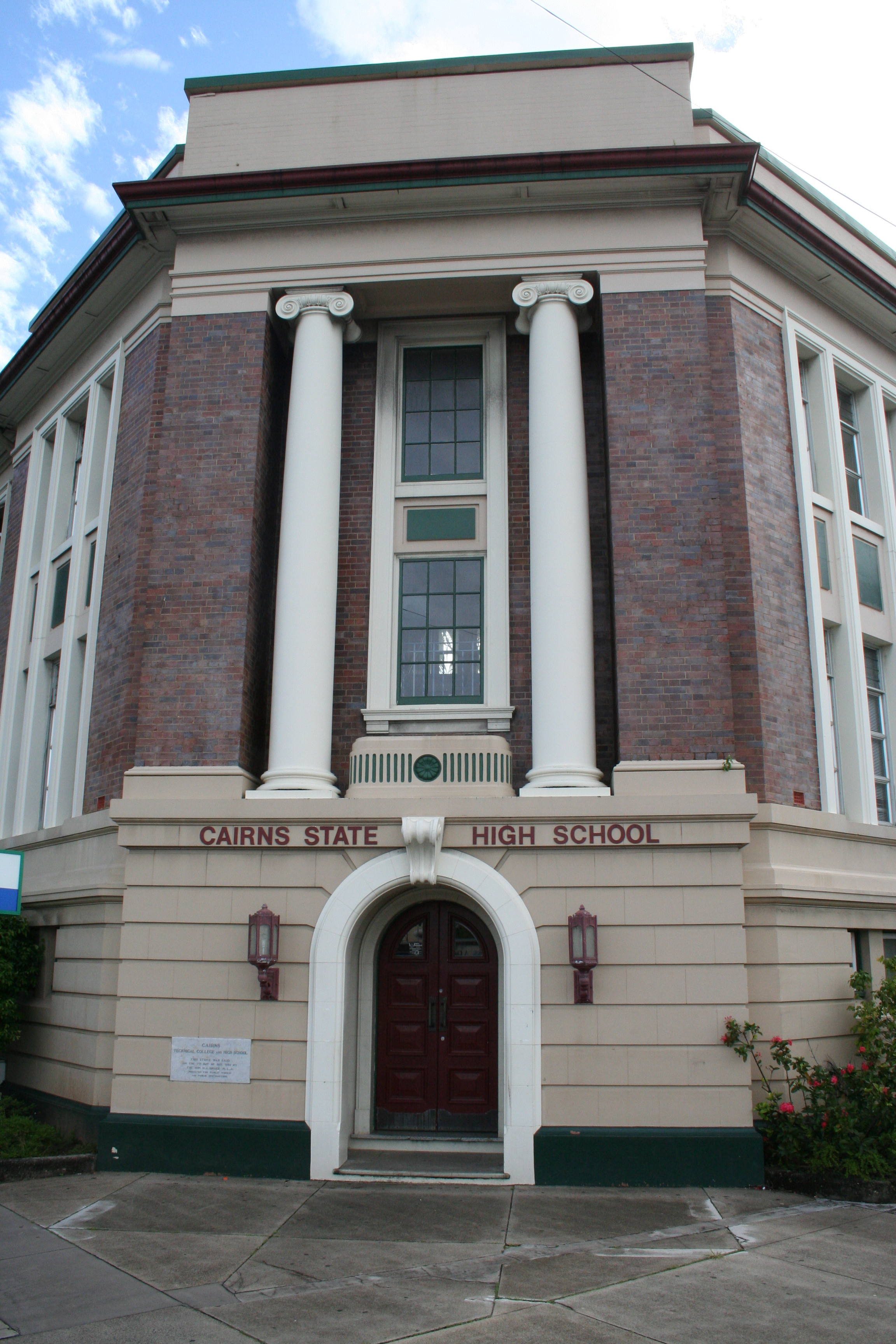 Cairns State Highschool